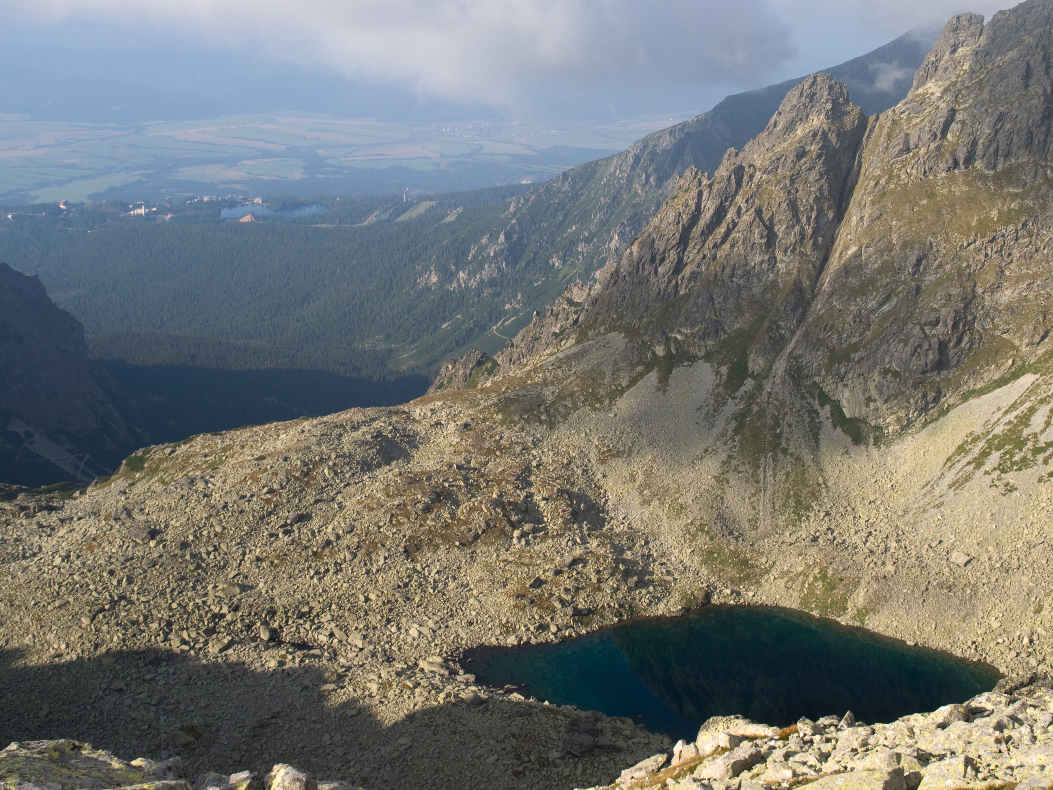 Dračie pleso, in the background Štrbské pleso